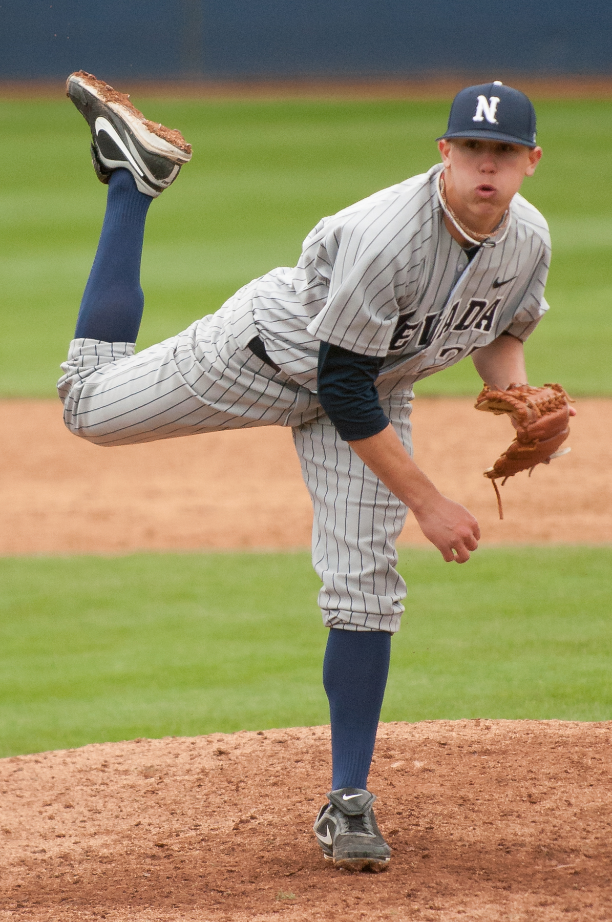 Braden Shipley delivers a pitch for the Nevada Wolf Pack in 2011